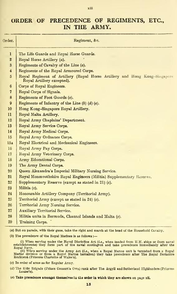 1945 Order of Precedence of the British Army, from the The Quarterly Army List, January 1945.